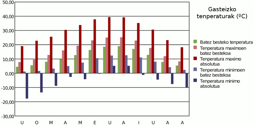 Temperatures in Vitoria-Gasteiz (Basque Country, Spain)